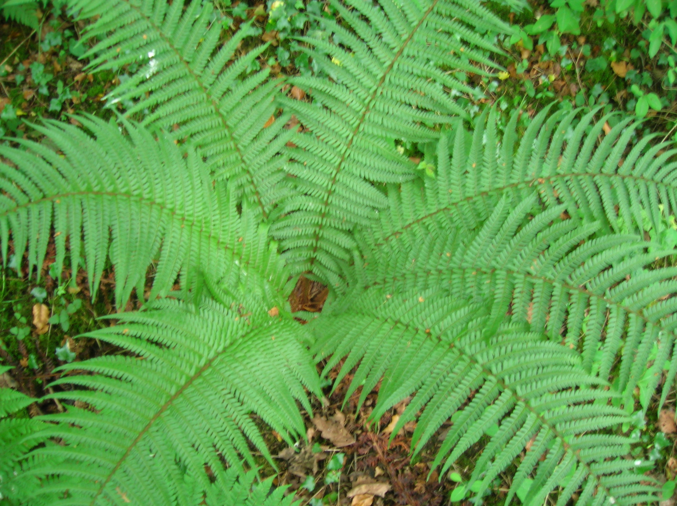 Shuttlecock growth form of the fern Dryopteris affinis, Lylston Row, Kilwinning, Ayrshire, Scotland